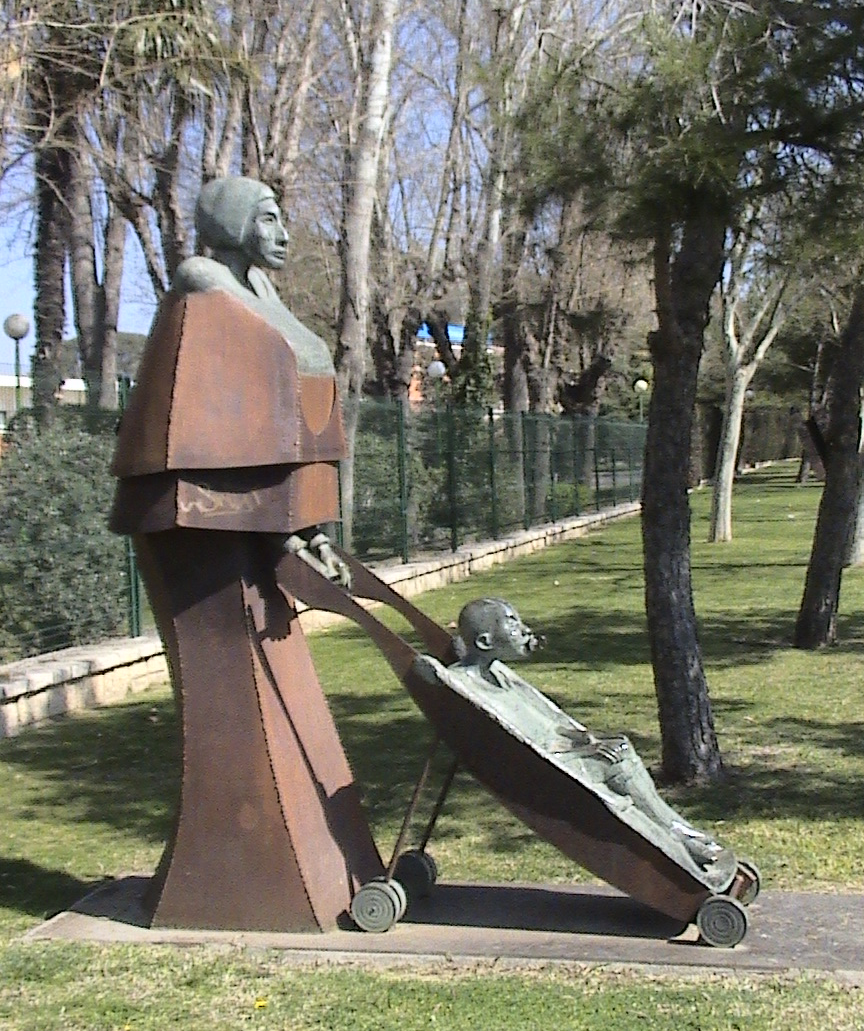 Jorge Seguí sculpture at the Museum of Outdoor Sculpture of Alcala de Henares (Community of Madrid - Spain).